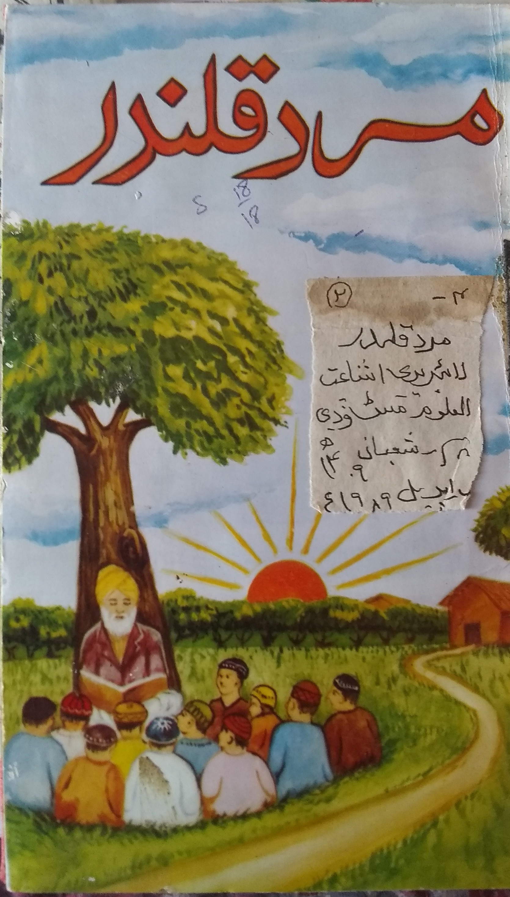 Mard e qalandar